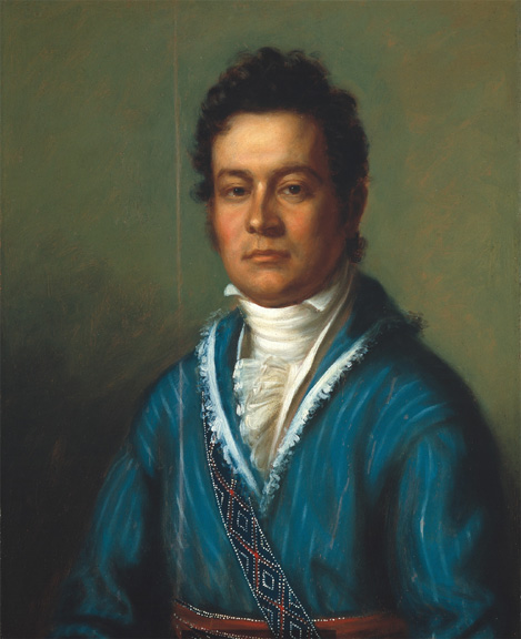 Portrait of David Vann, oil on panel, 1825, 18" x 14 1/2".